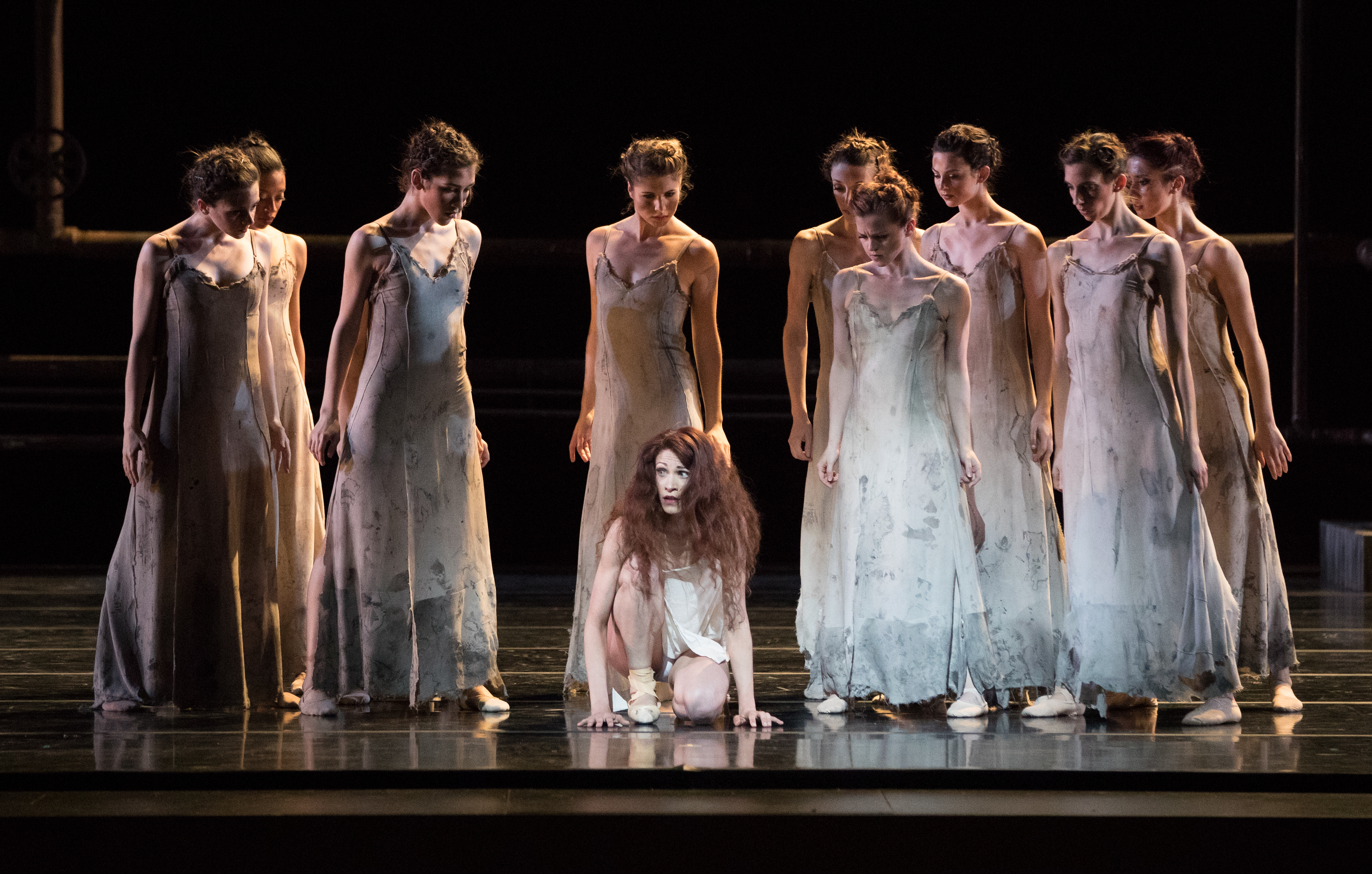 "Rite of Spring" Choreography by Adam Hougland. Dancer Angelina Sansone with KCB Dancers. Photographer Brett Pruitt & East Market Studios.